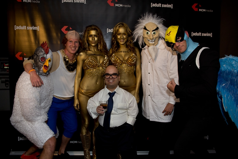 Adult Swim, body paintings by